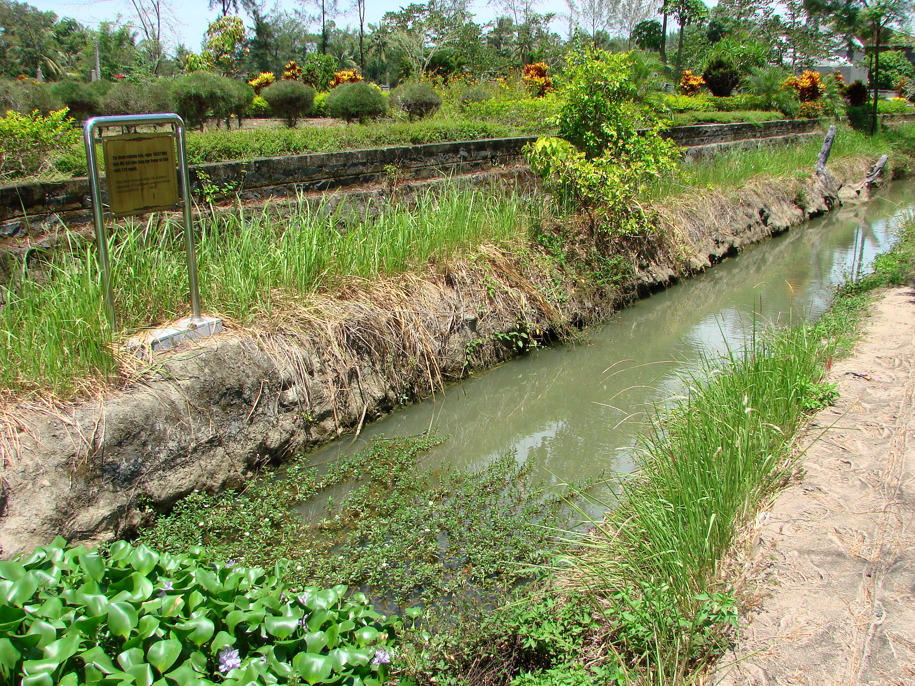 Ditch at the My Lai massacre memorial site where 170 villagers were gathered together and killed. Near Quang Ngai, Vietnam. June 2009.